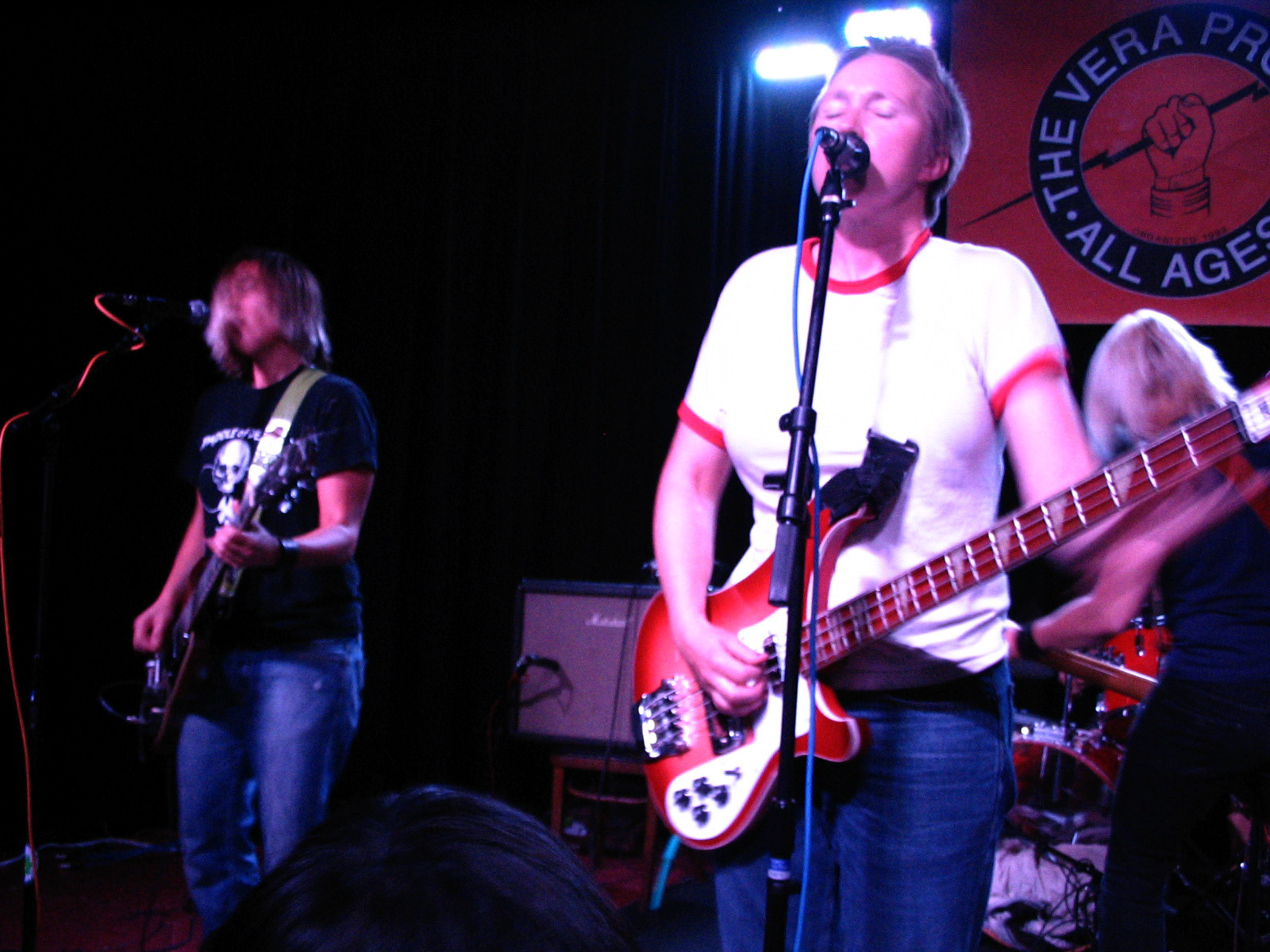 Team Dresch performing at The Vera Project in Seattle, WA (from left to right: Kaia Wilson, Jody Bleyle, Donna Dresch, Marci Martinez